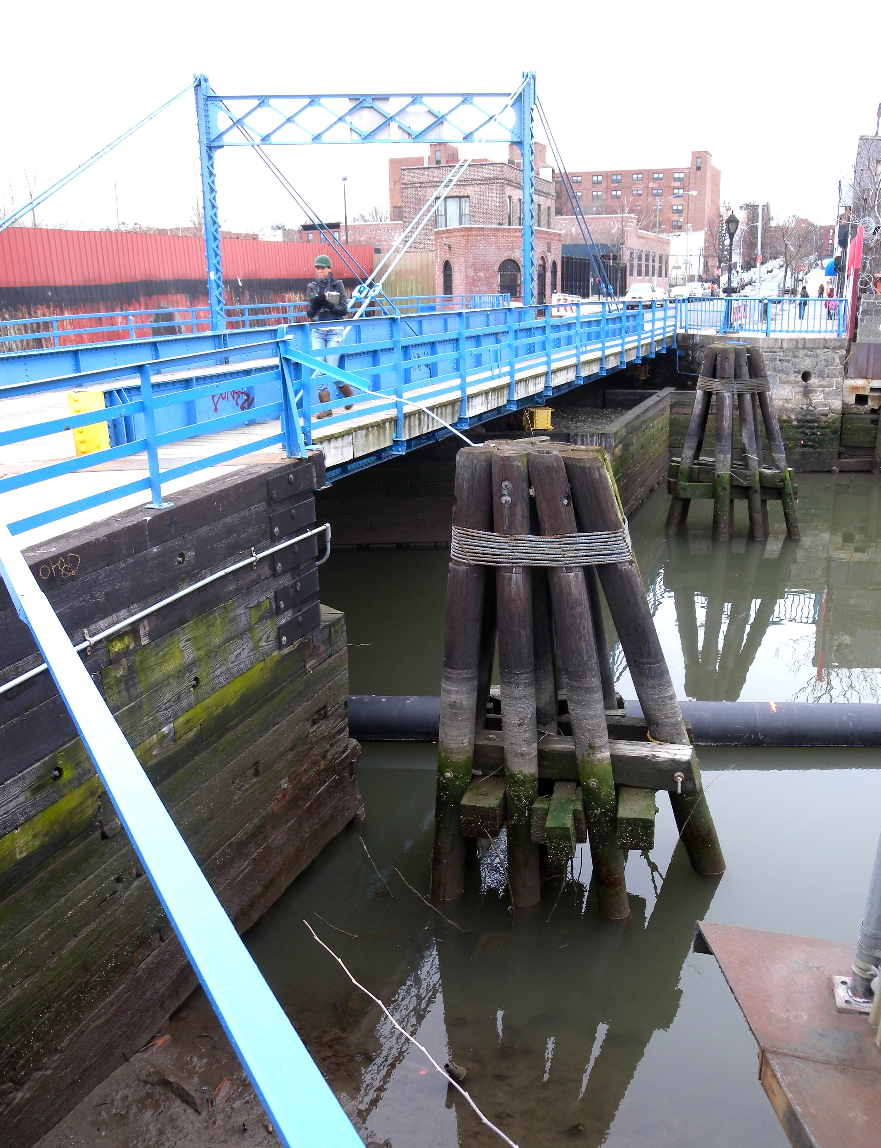 Looking west at Carroll Street Bridge on a cloudy afternoon.